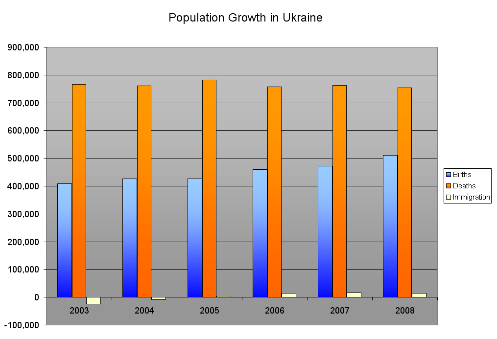 Graph showing deaths, births and net migration in Ukraine.